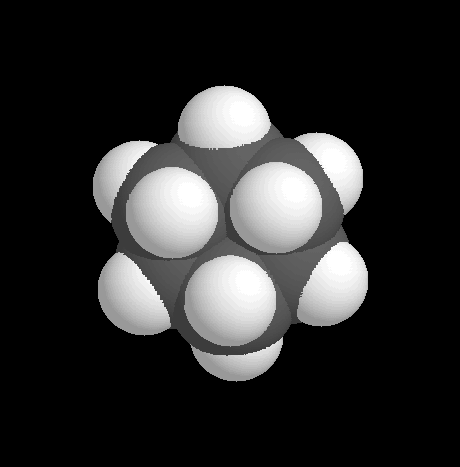 A calotte model of cyclohexane C6H12. The white spheres represent hydrogen atoms, which surround a ring of carbon atoms (in grey). cyclohexane.